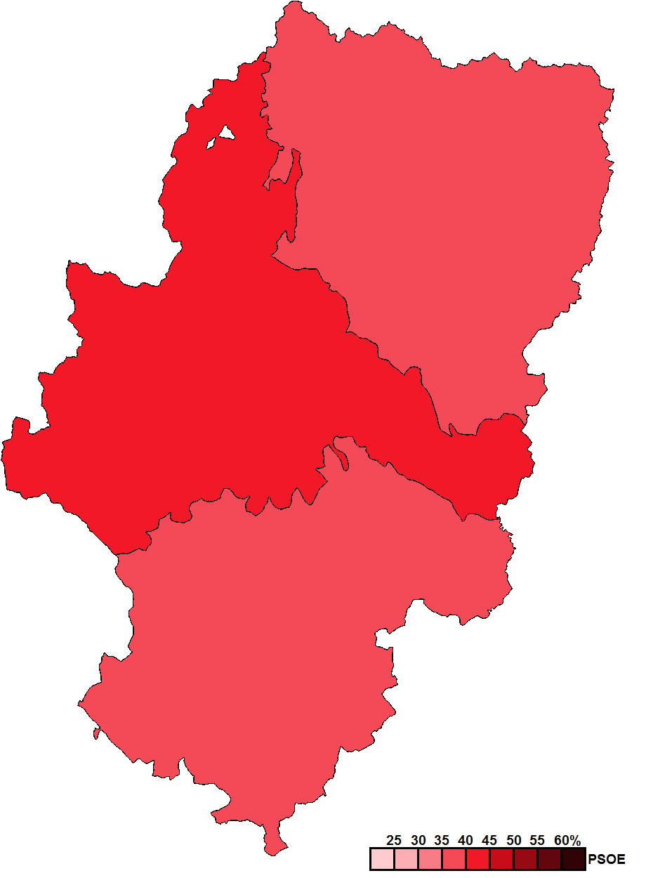 Provincial results for the 1991 Aragonese regional election.